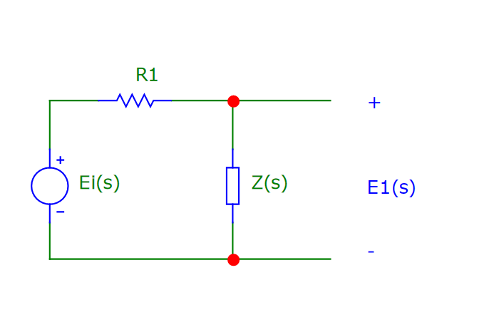 CKT RC Ordem 2 no Domínio Frequência após simplificação